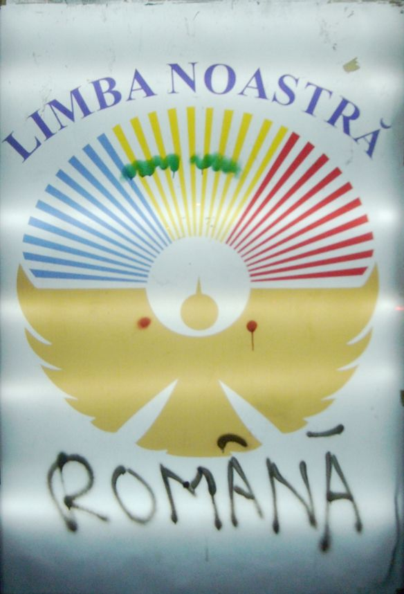 A social advertisement in downtown Chisinau, depicting the official Moldovan holiday Limba Noastra ("Our Language"), celebrating the state language of Moldova. State authorities generally avoid explicitly naming the language Moldovan or Romanian, so an unknown person sprayed their preferred version onto the shield.